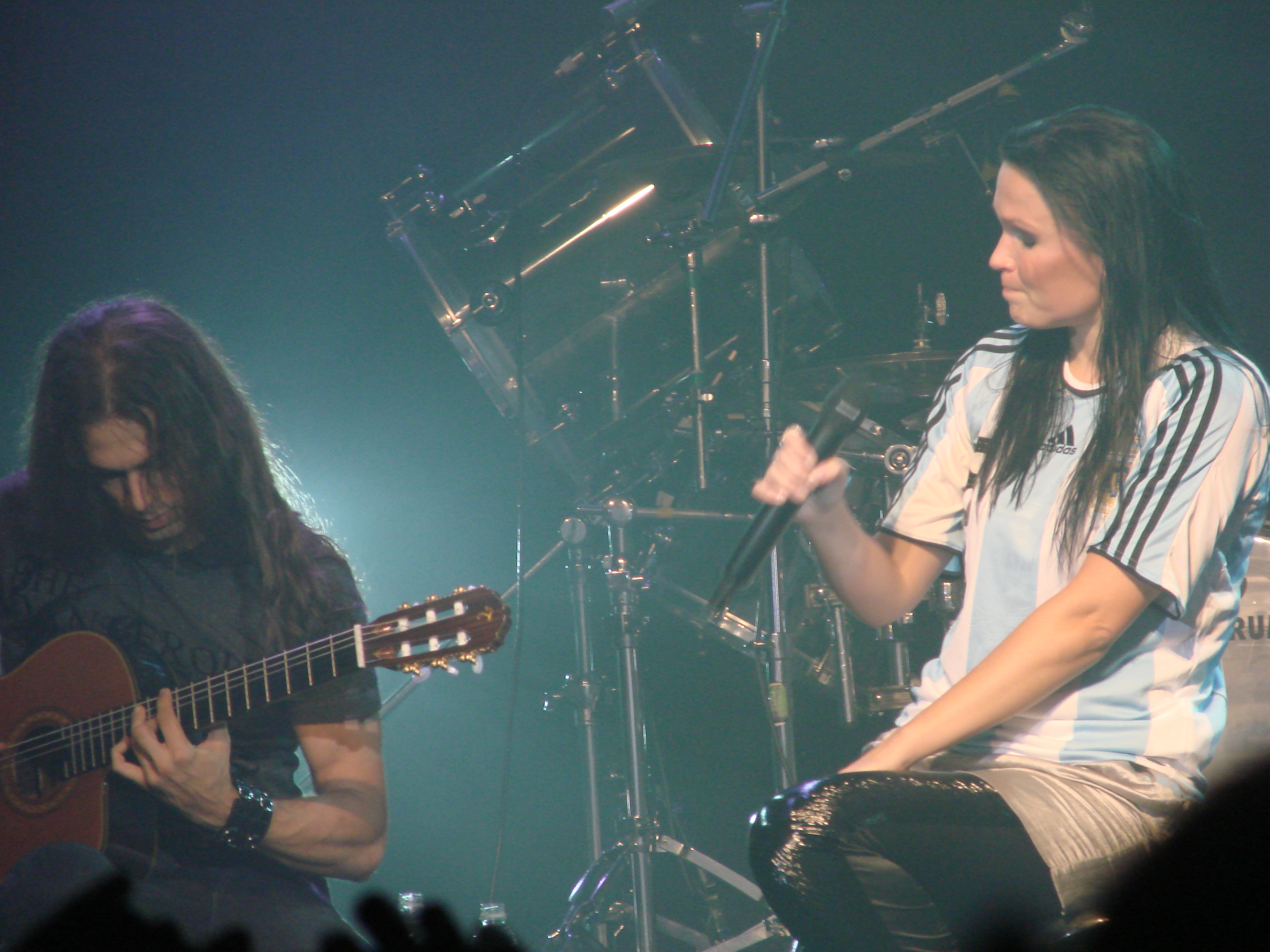 Tarja Turunen singing at the Obras Stadium in Buenos Aires, Argentina, on September 6, 2008. This was the last show of the Winter Storm tour on America. Here, with Kiko Loureiro (acoustic guitar).